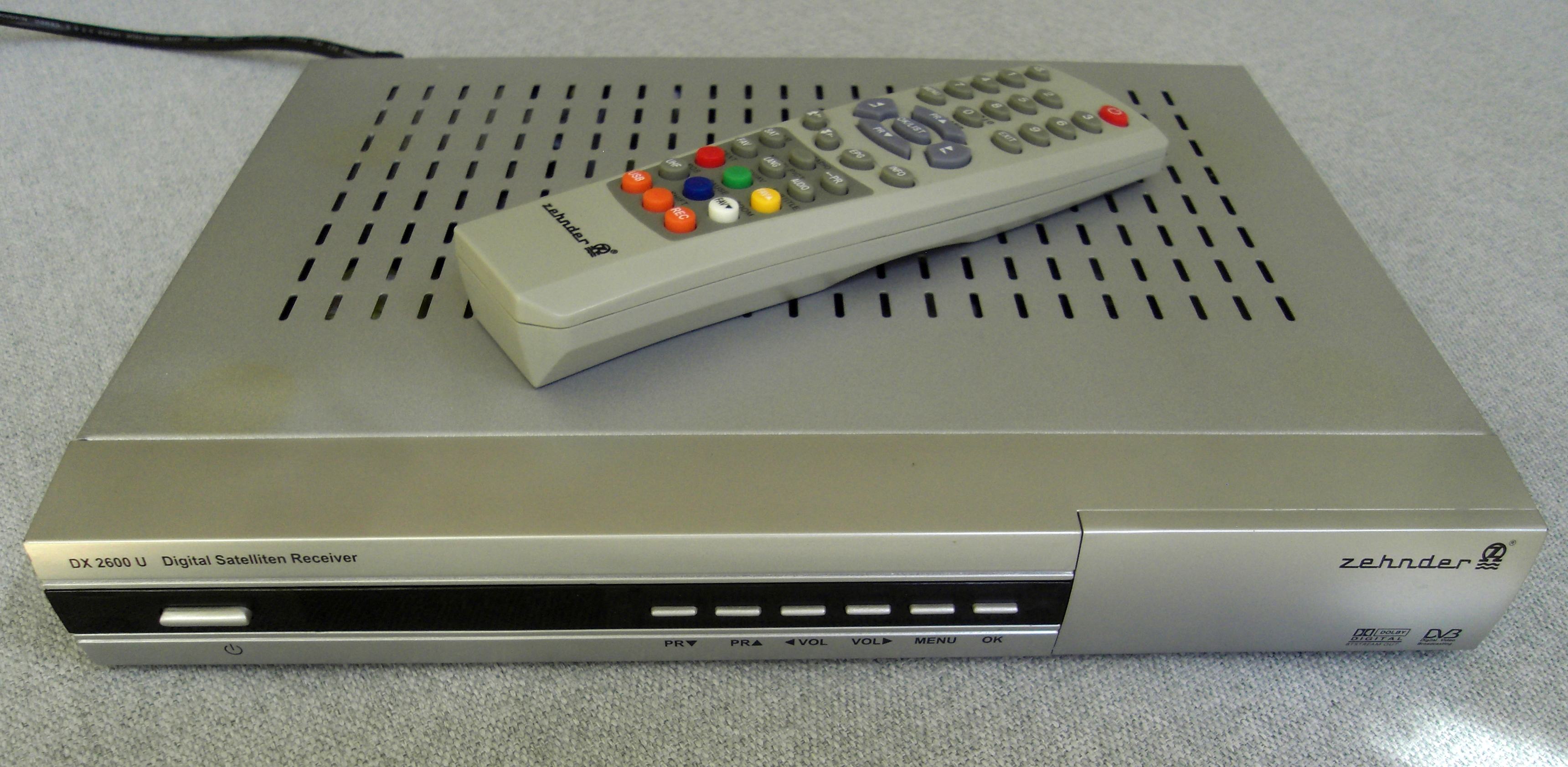 Satellite set-top box Zehnder DX 2600 U